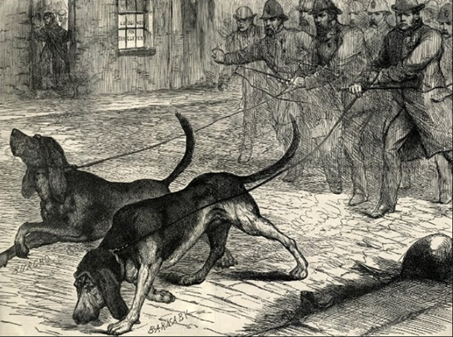 Edwin Brough's bloodhounds being trained to track Whitechapel killer 1888